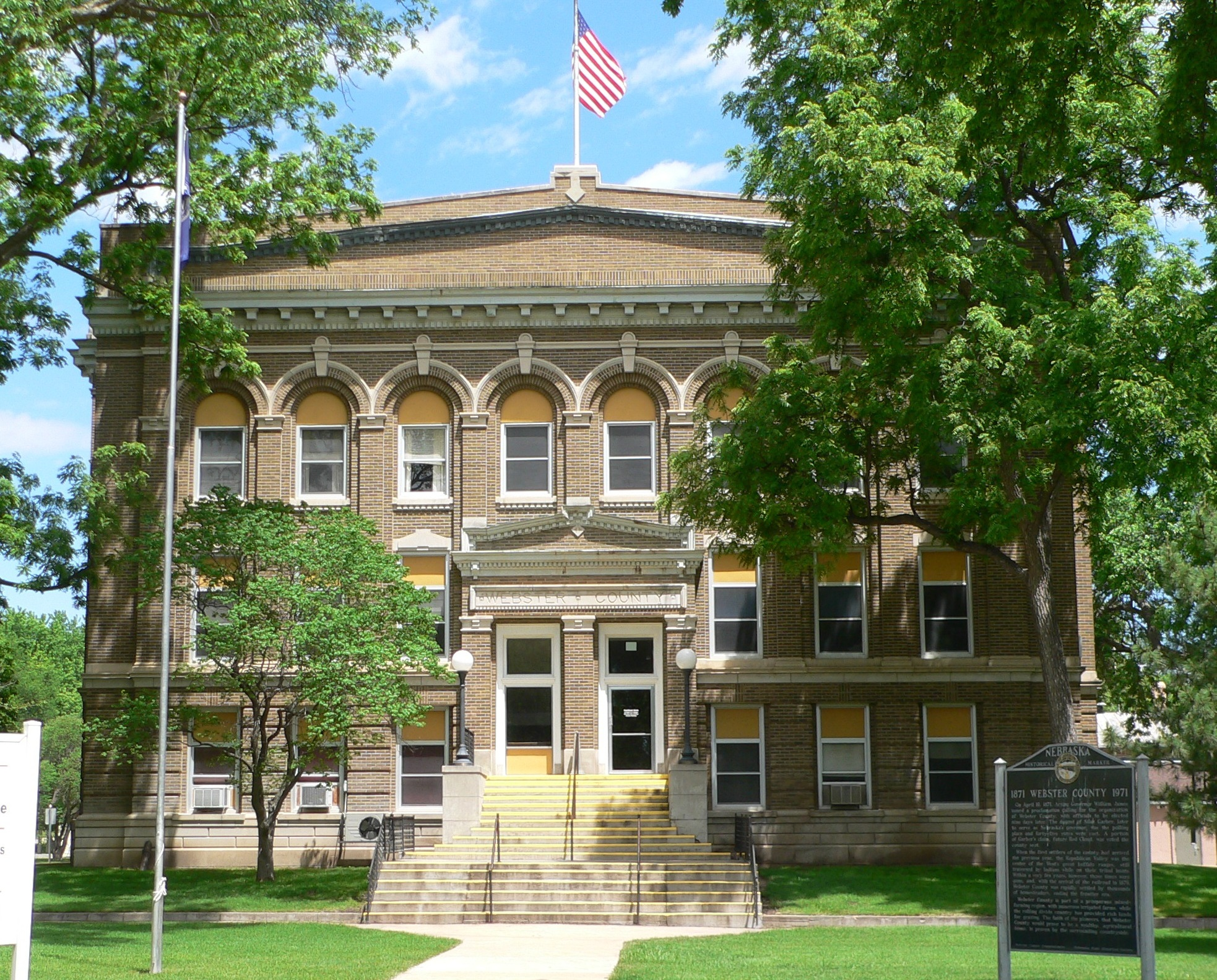 Webster County Courthouse in Red Cloud, Nebraska; seen from the south. The Renaissance Revival building was constructed in 1914. It is listed in the National Register of Historic Places.